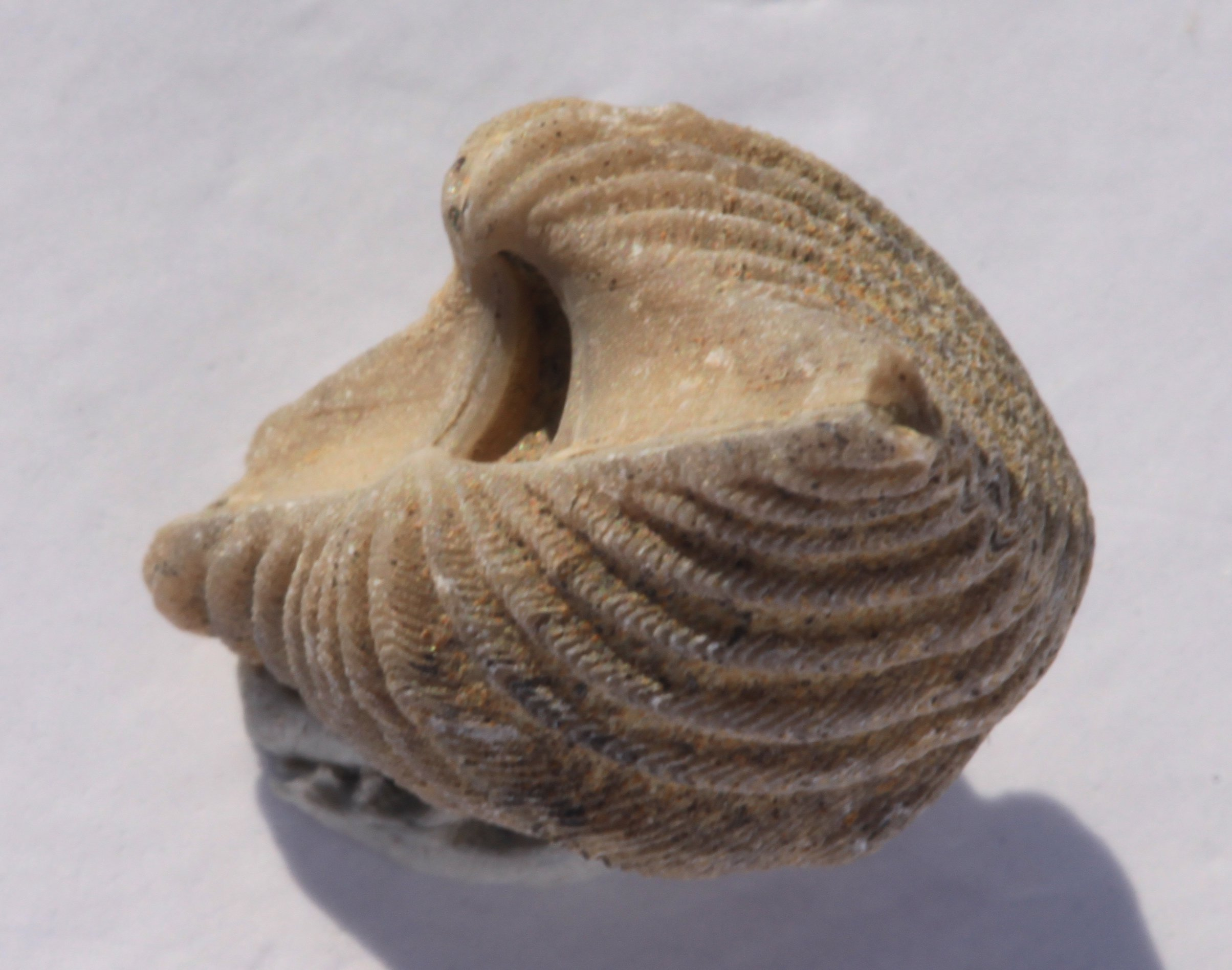 A Punctospirifer kentuckyensis lampshell, Order Spiriferinida, Family Punctospiriferidae, 19mm along the axis, oblique lateral view of the hinge, collected at the Harpersville Formation near Breckenridge, Texas, USA, from the Carboniferous (Pennsylvanian)